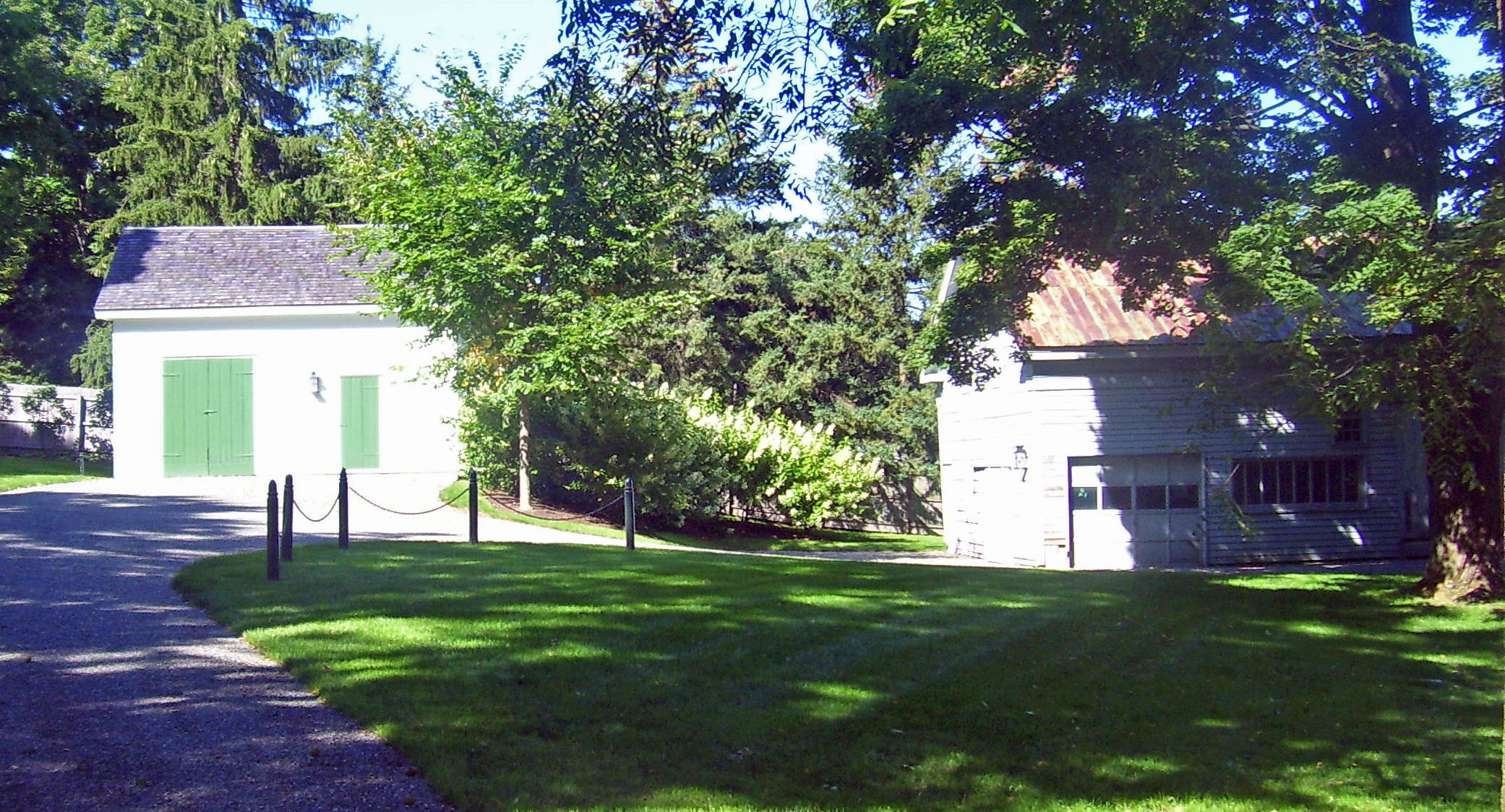 Barns in rear of Dr. Abram Jordan House, Claverack, NY, USA